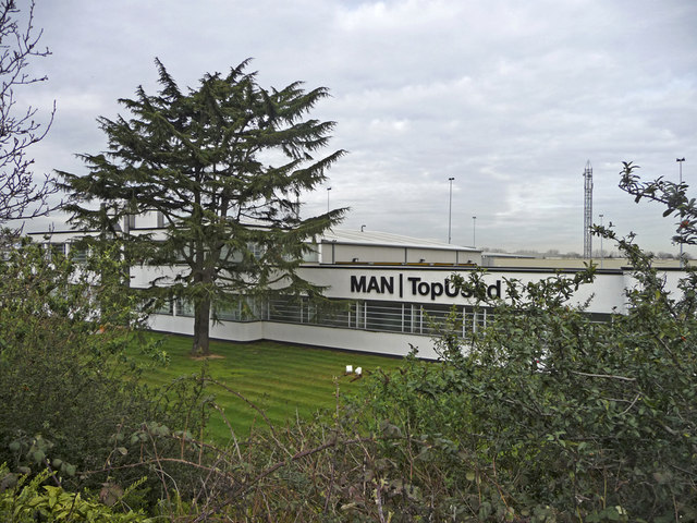 Art Deco Building, Southbury Road, Enfield This building is to the west of the railway line in Southbury Road.